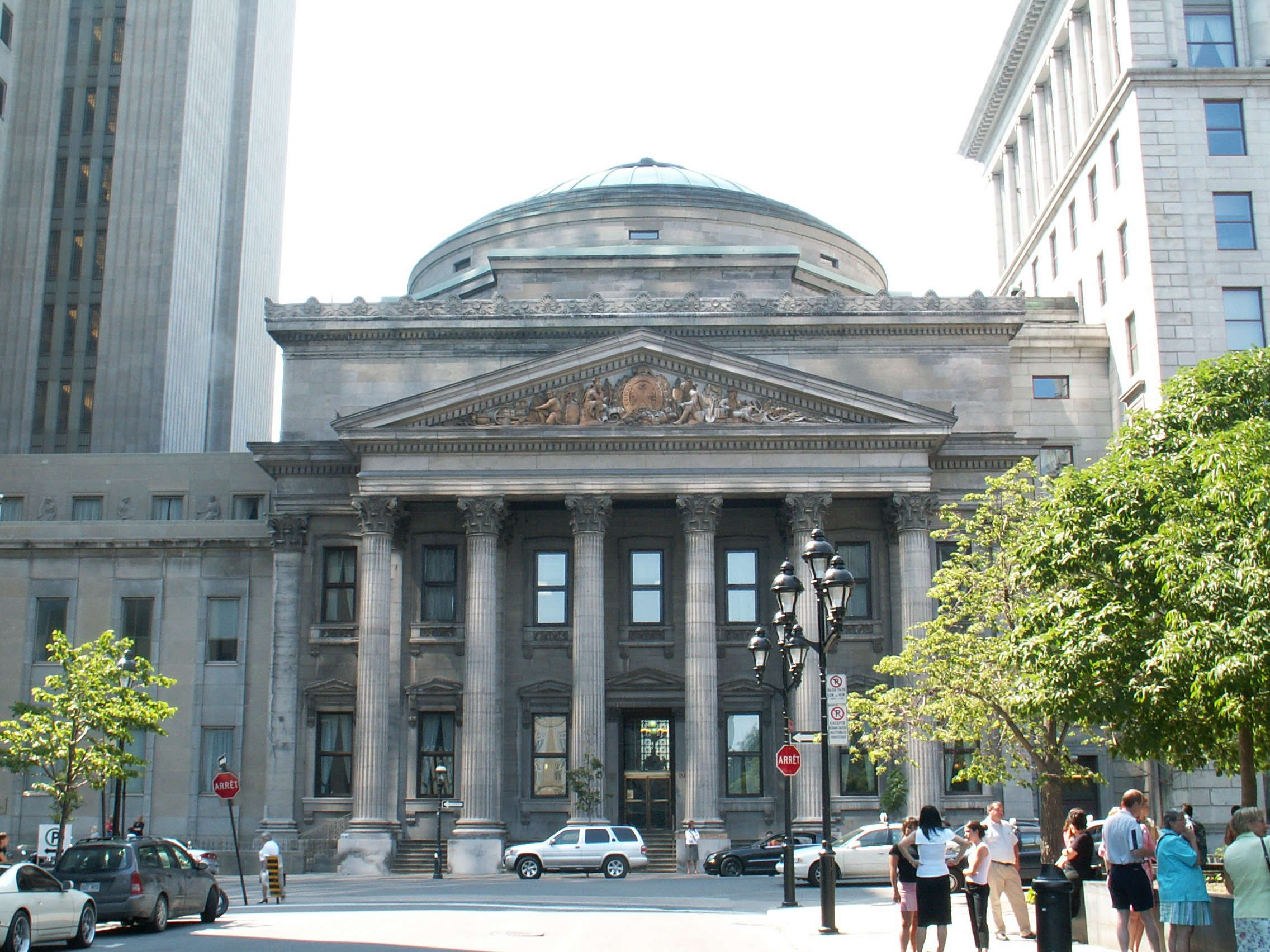 Bank of Montreal Head office, at 129 Saint-Jacques Street, in Montreal. Built in 1845 based on plans by John Wells.